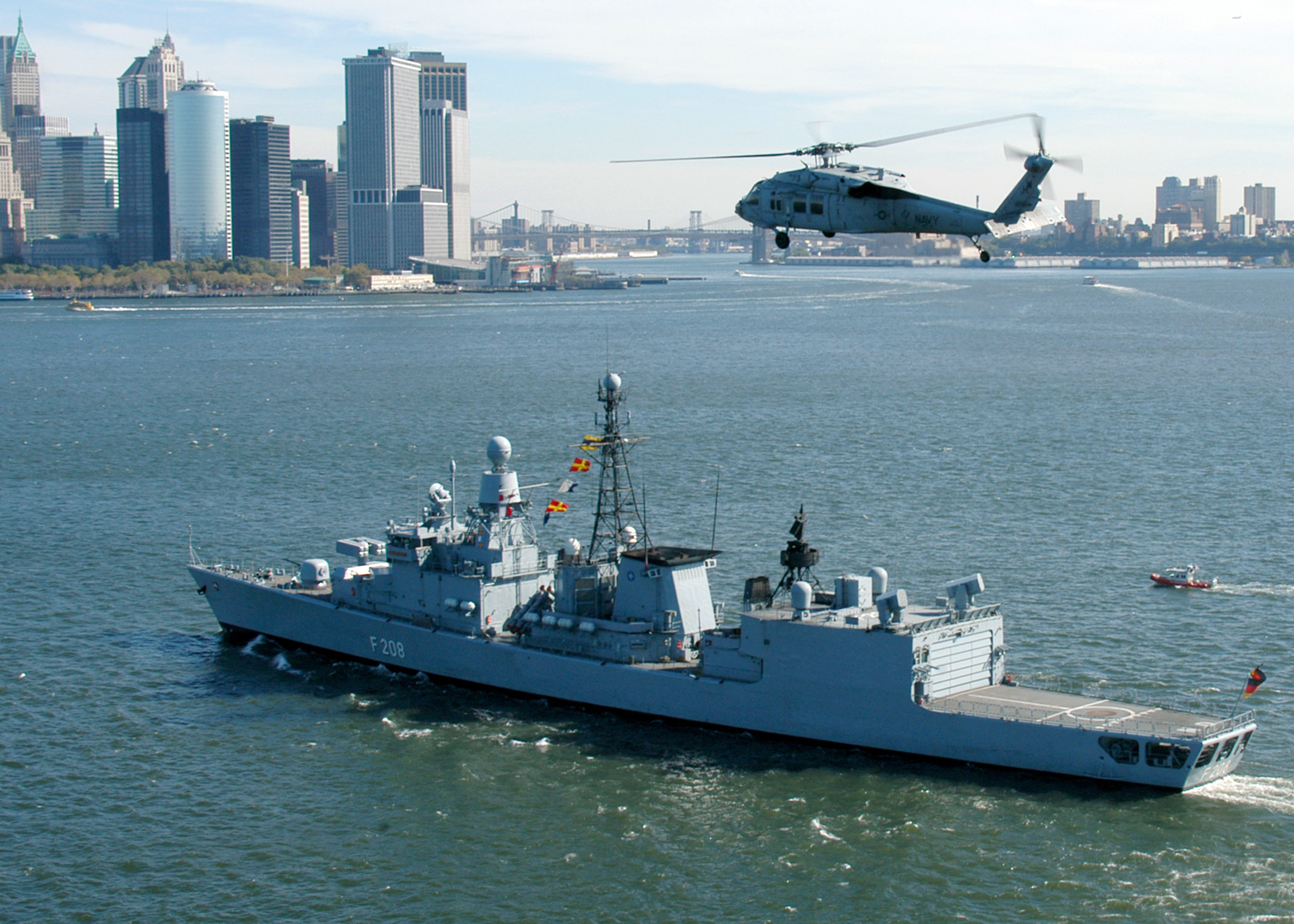 New York Harbor, N.Y. (Oct. 13, 2004) — An MH-60S Knighthawk assigned to the "Chargers" of Helicopter Combat Support Squadron Six (HC-6), flies over the German Navy frigate FGS Niedersachsen (F208) taking part in a "Parade of Ships." Niedersachsen is currently taking part in NATO Standing Naval Force Atlantic (SNFL) 2004 exercises. SNFL is a permanent peacetime multinational naval squadron composed of destroyers and frigates from the navies of various NATO nations. The exercises are designed to test readiness, improve communication and diplomacy between member countries and promote interoperability between navies.